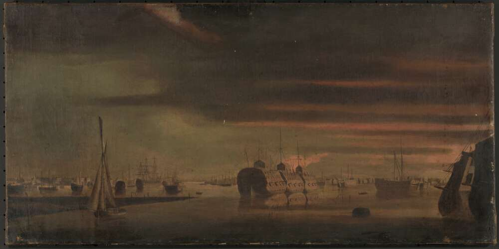 Prison hulks in the Thames, England,painting: oil on canvas; 52 x 105 cm.